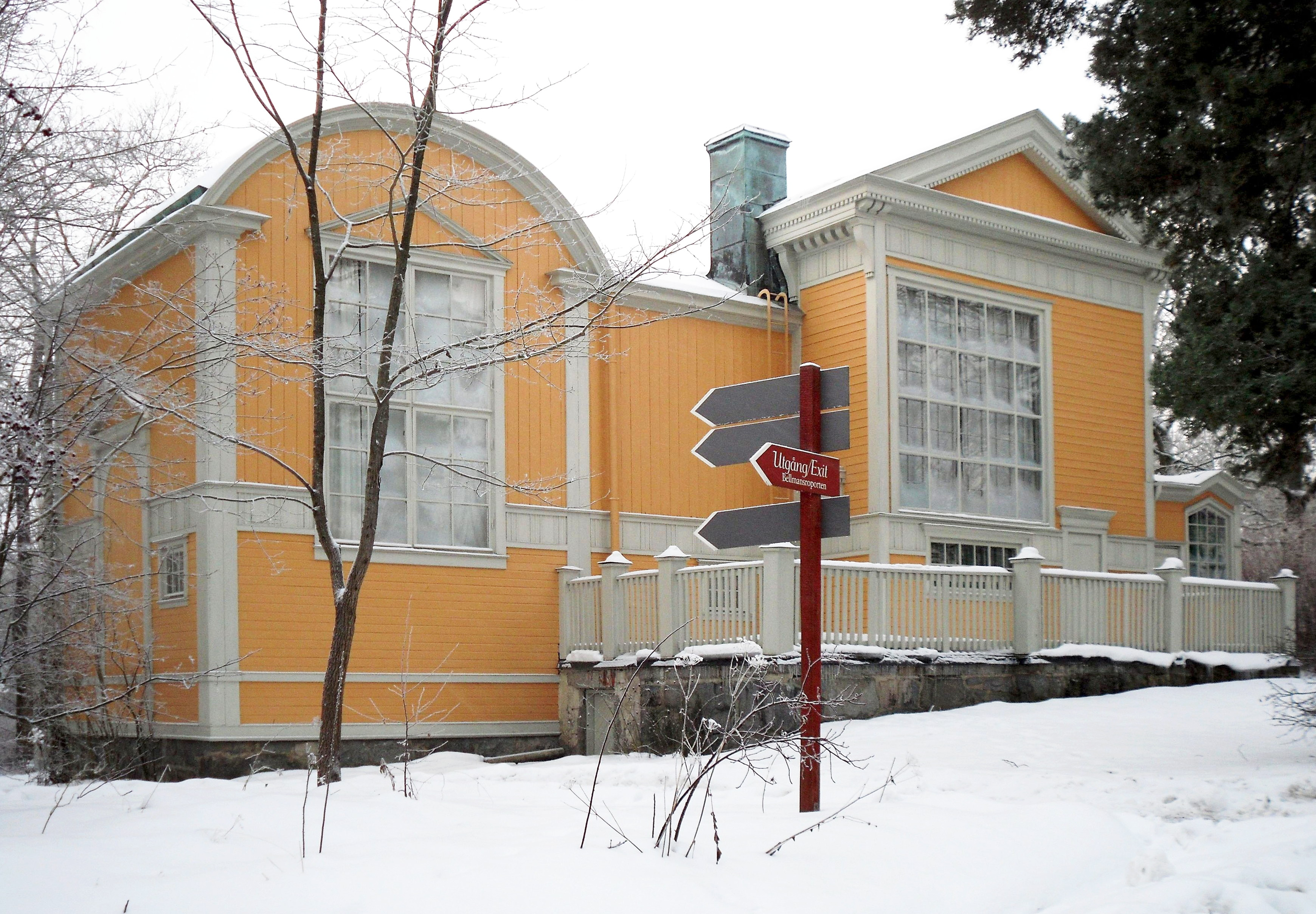 Studio of artist Julius Kronberg, Skansen, Stockholm, Sweden.